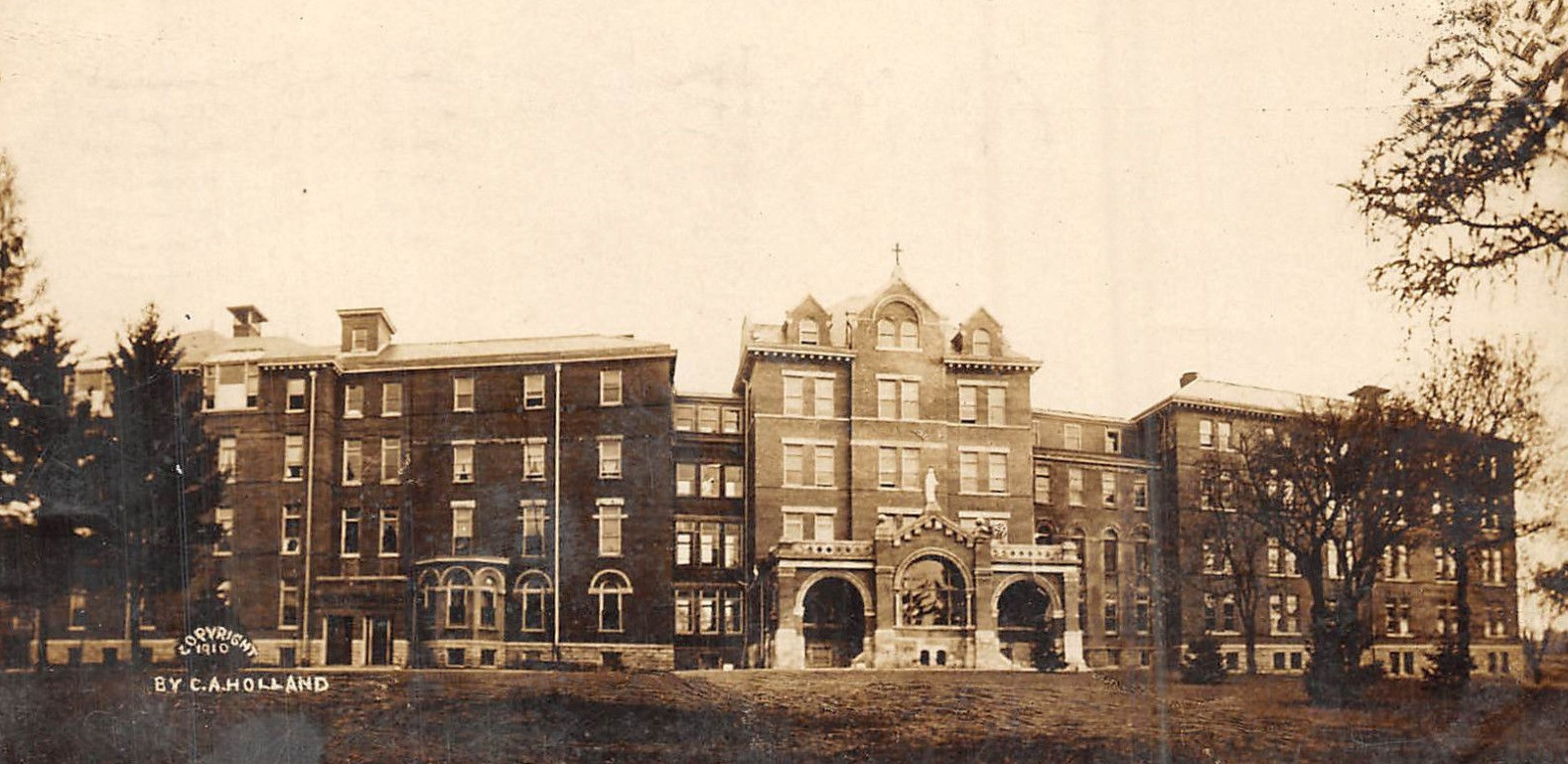 Cropped photo postcard postmarked 20 March 1911 showing St. Mary's Hospital, Rochester, Minnesota, United States. Copyright 1910 by Carl A. Holland.